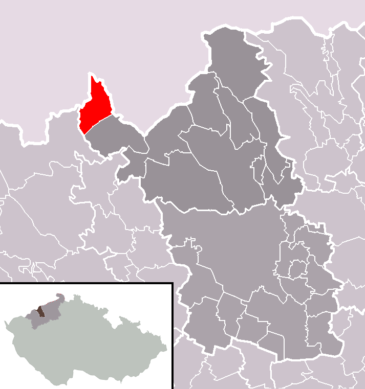 Location of Brandov municipality within Most District and administrative area of Litvínov as a Municipality with Extended Competence.